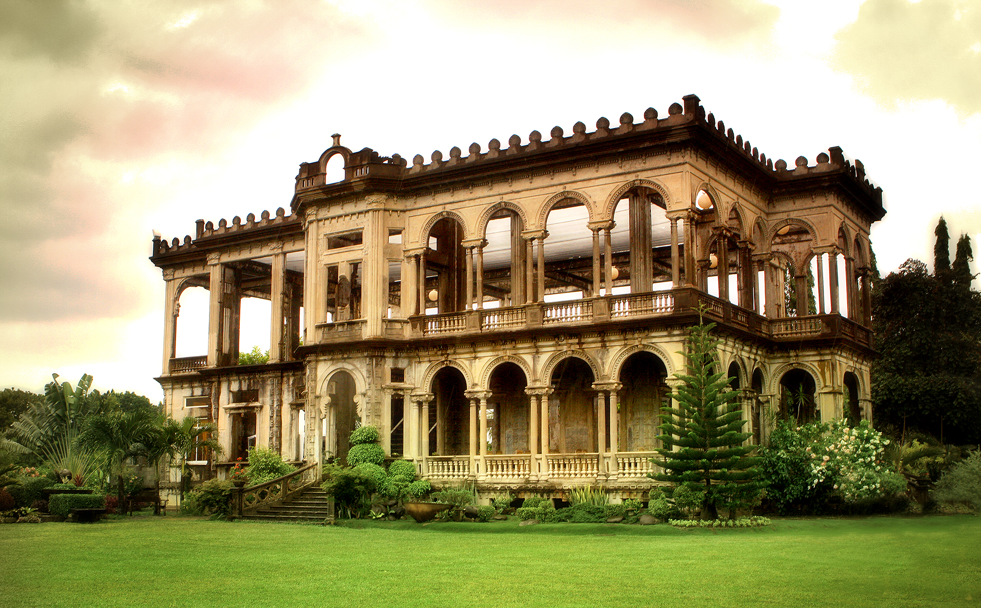 An old mansion at Talisay, Negros Occidental Philippines famous from its architecture, "An Aftermath of World War 2"